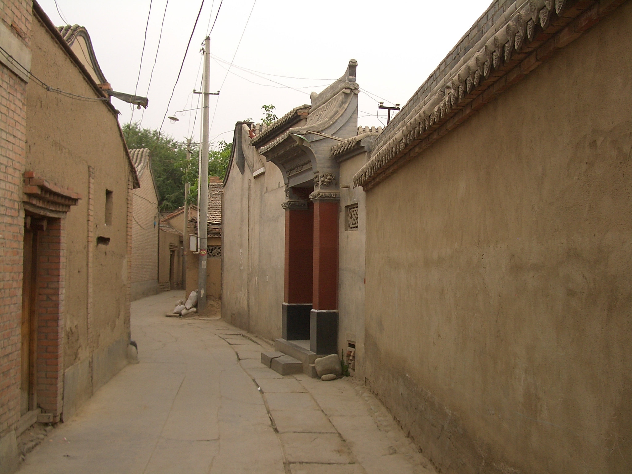 A back street near Hanjia Mosque (Han Family Mosque) in the Dongguan section of Linxia City